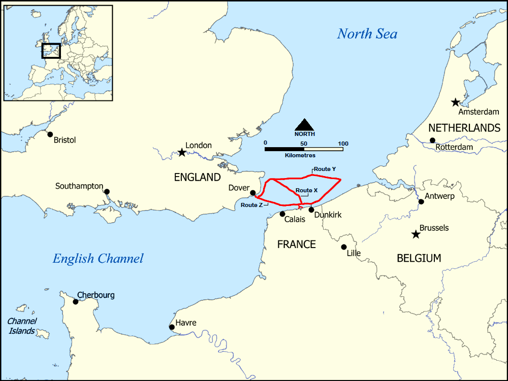 This map shows the general location of the three shipping routes used during the Dunkirk Evacuation (1940).